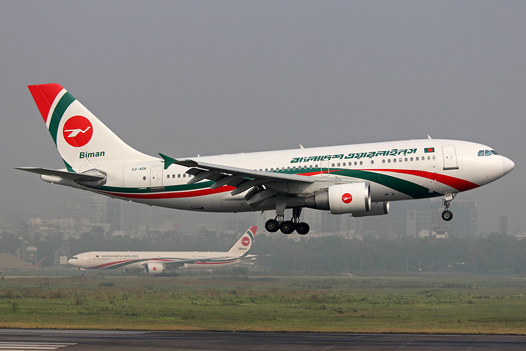 Bangladesh Bimans new livery air-crafts. 77W on short hold while 313 is landing.